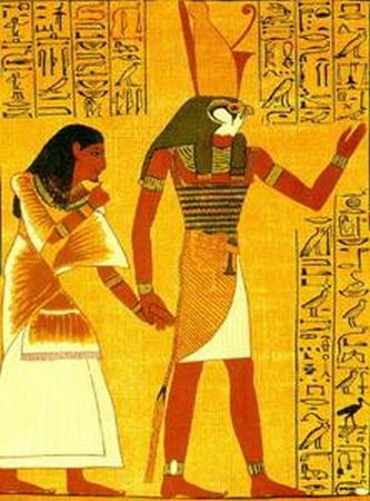 Horus, ancient Egyptian God, the Sun God, depicted on papyrus